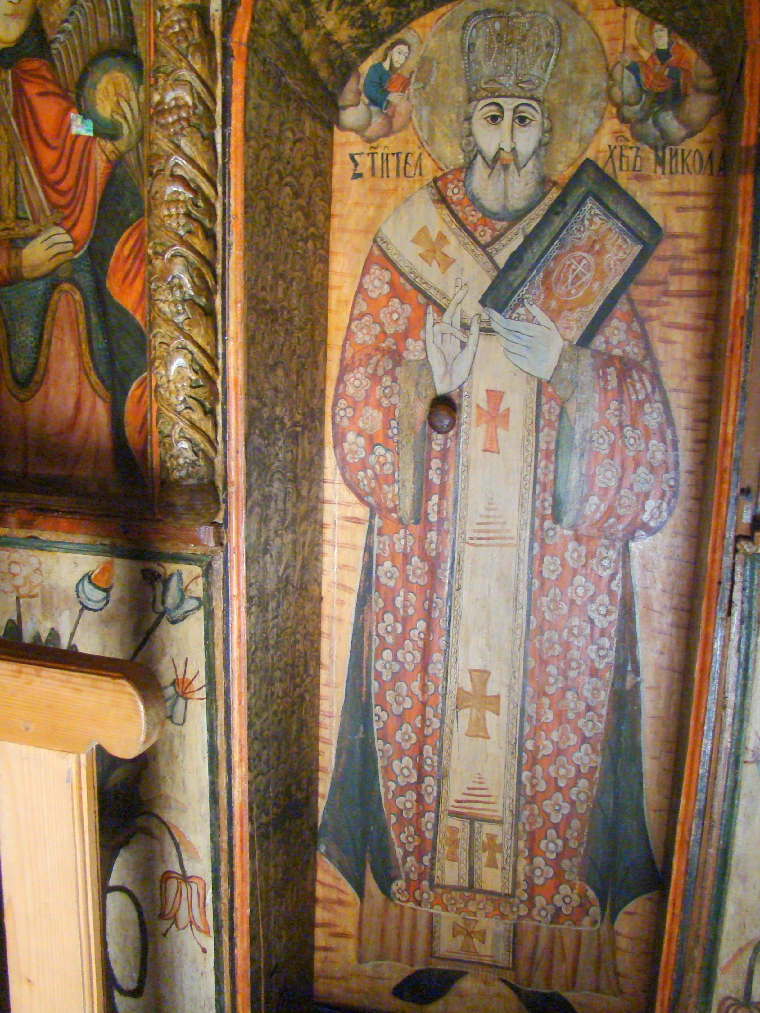 Wooden church in Cormaia monastery, Bistrița-Năsăud county, Romania